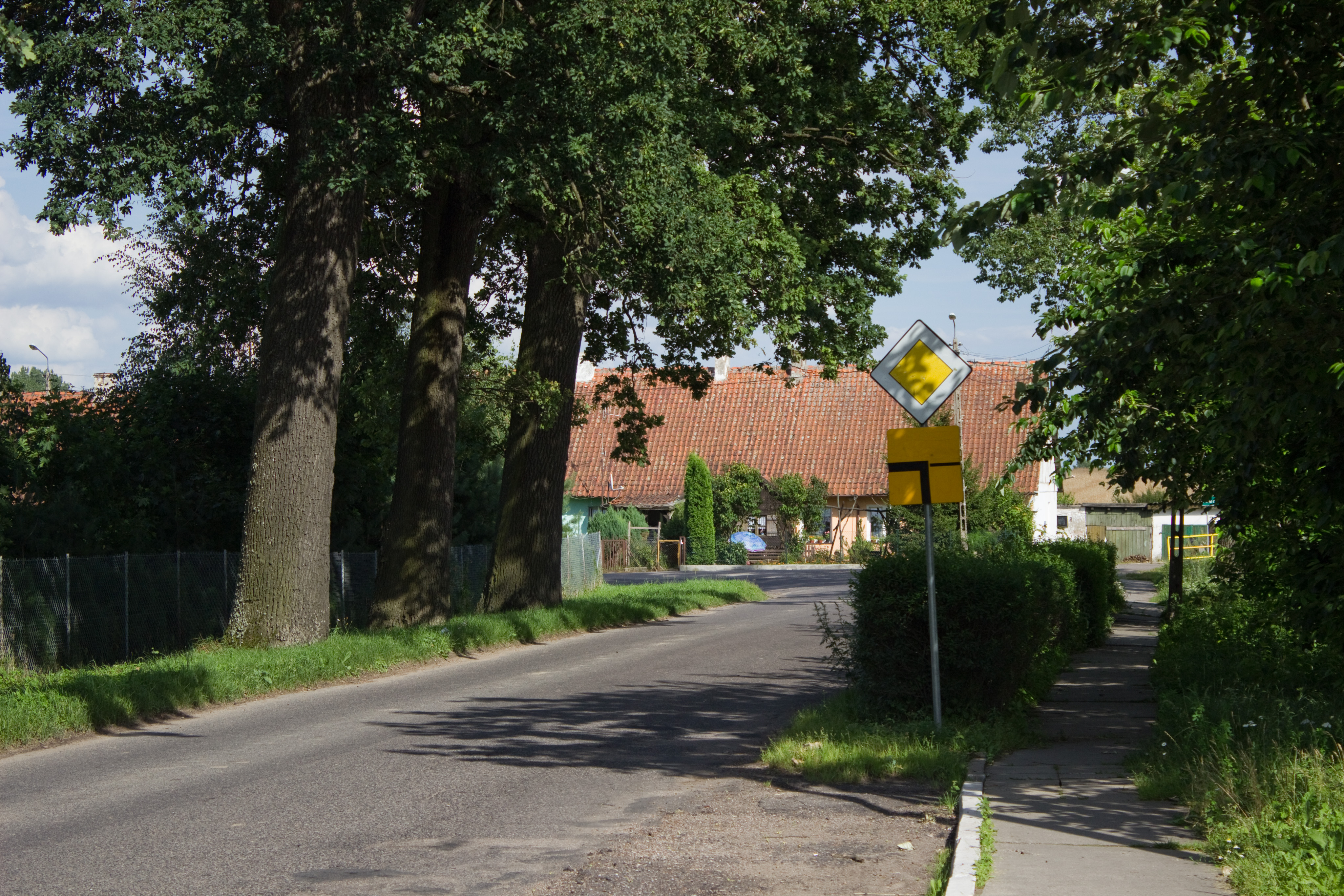 Street, Tolko, gmina Bartoszyce, powiat bartoszycki, Warmian-Masurian Voivodeship